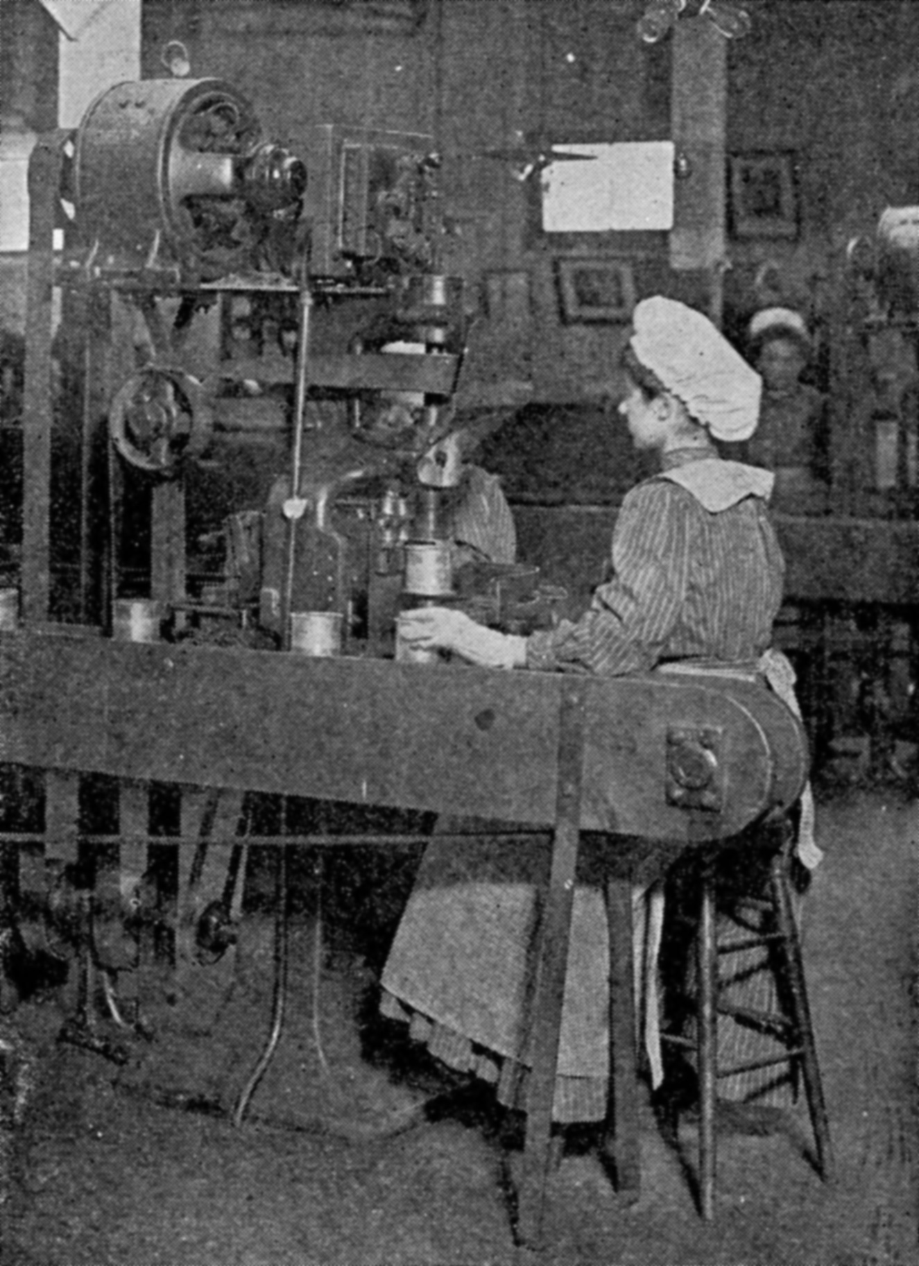 Female worker in an H. J. Heinz can factory crimping can ends onto cans using machinery. From the materials for the Alaska-Yukon-Pacific Exposition of 1909, held in Seattle.